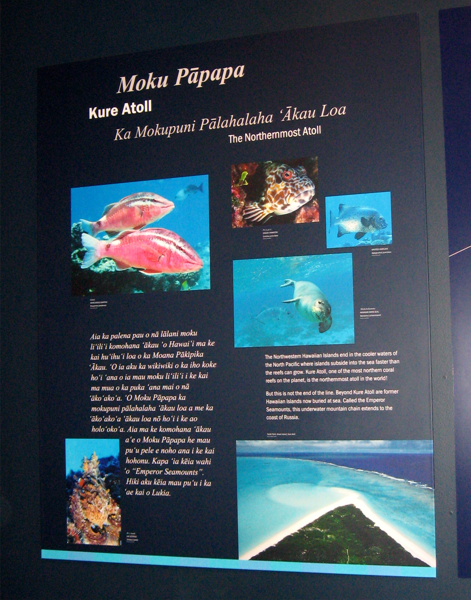 The Mokupapapa Discovery Center has exhibits on the Northwestern Hawaii Islands, which are now part of the Papahānaumokuākea Marine National Monument. It is in the historic Hata Building in Hilo, Hawaii.